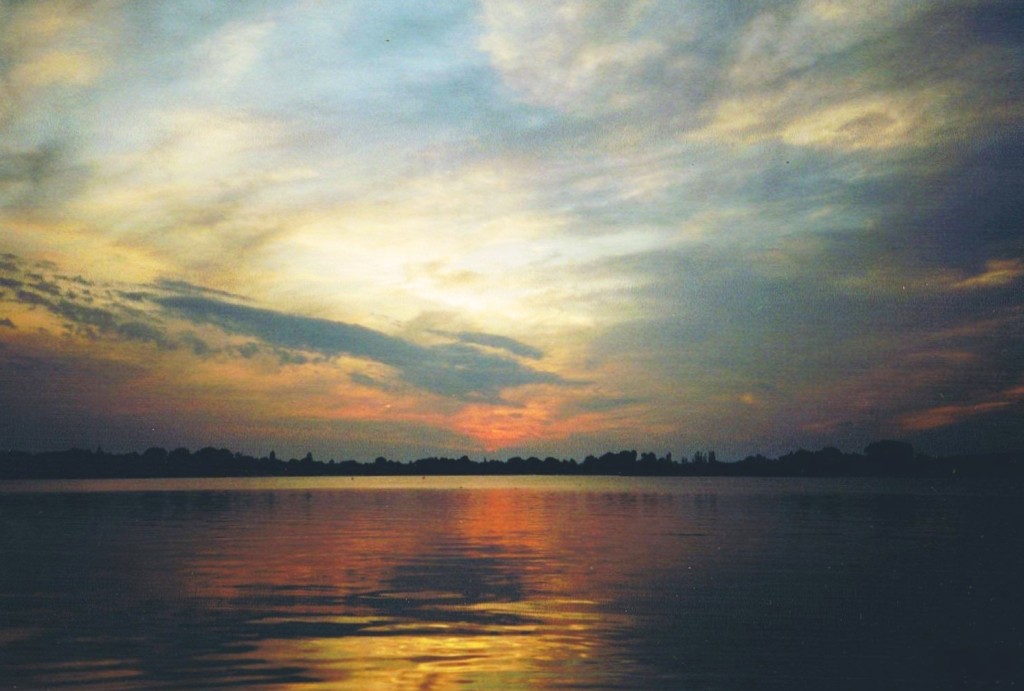 River Havel near Groß Kreutz (Brandenburg, Germany)